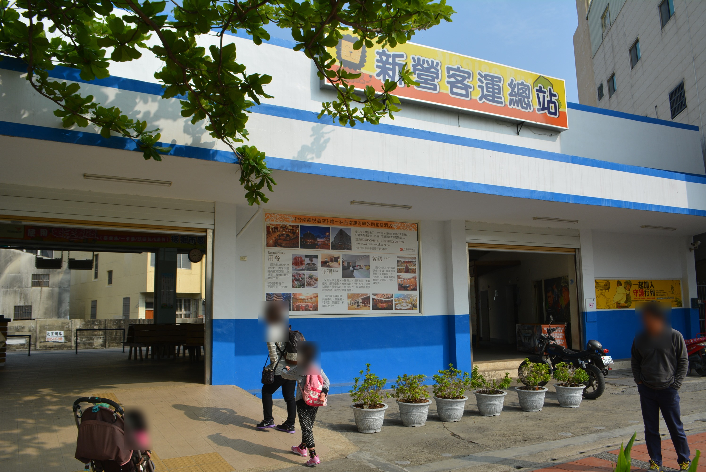 Singing Bus Terminal Station, Xinying District, Tainan City.